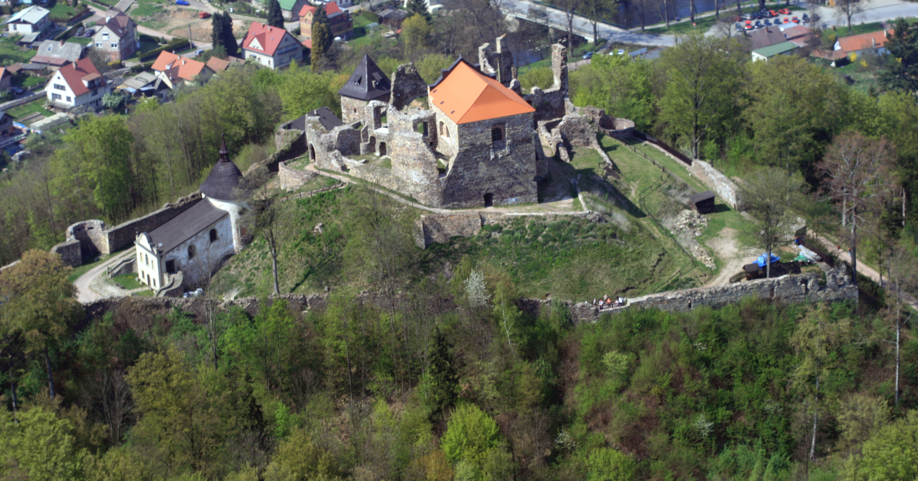 castle Potštejn from air, eastern Bohemia, Czech Republic